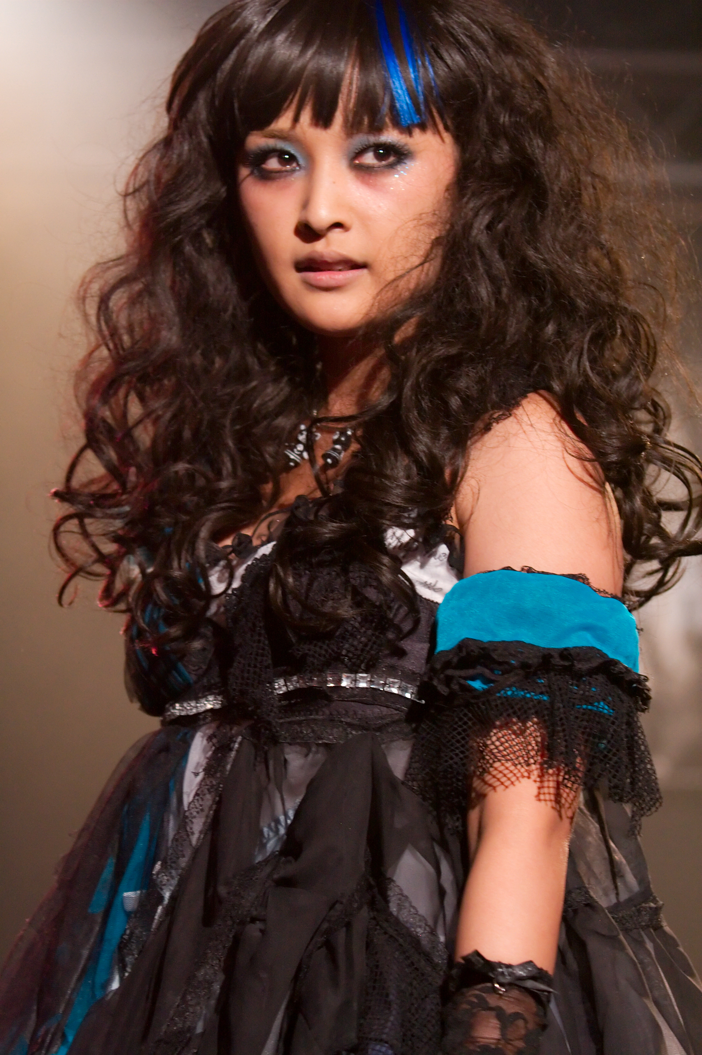 Hangry & Angry live at Chibi Japan Expo 2009 (Paris, France).